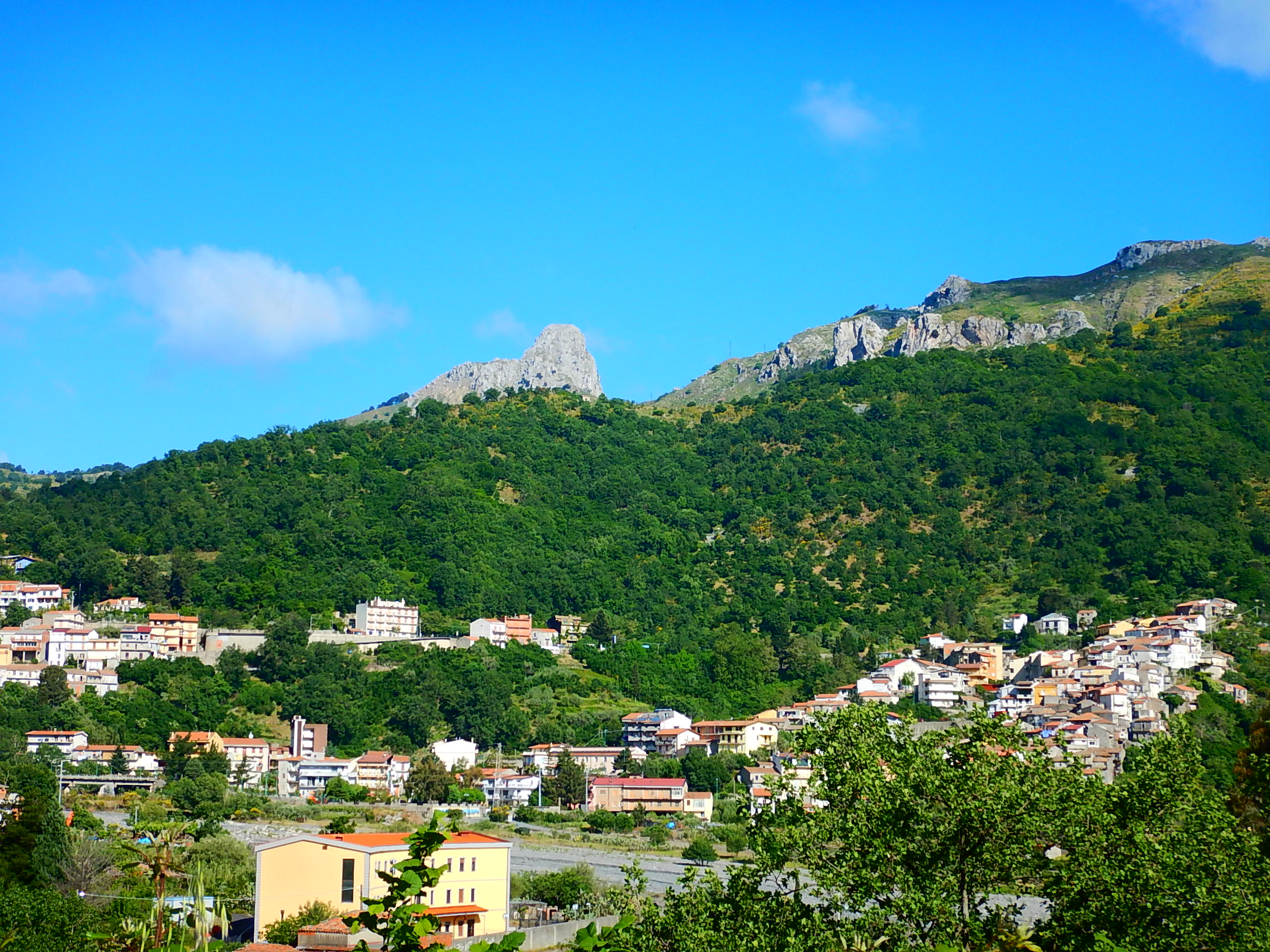 landscape of Fondachelli Fantina, Sicily